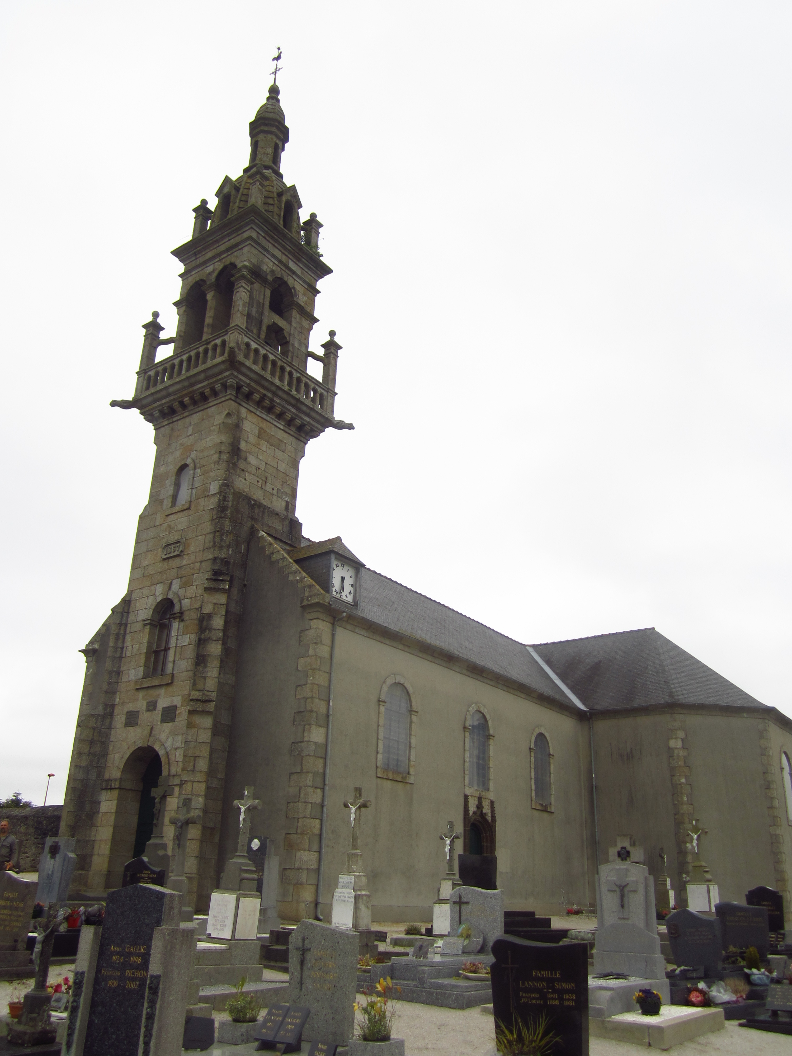 Church of Saint-Méen, Finistère